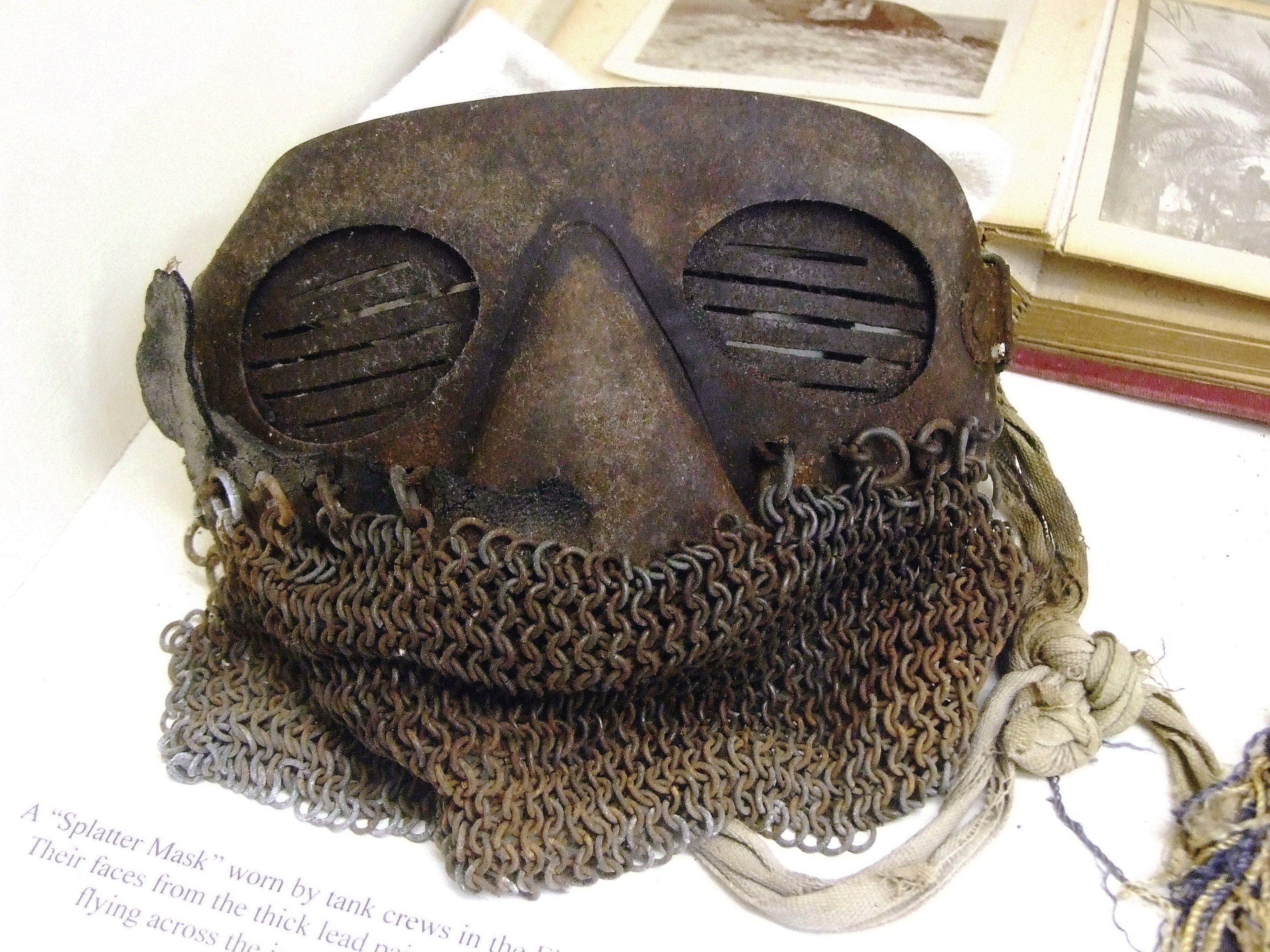 Splatter Mask worn by tank crews in WW I